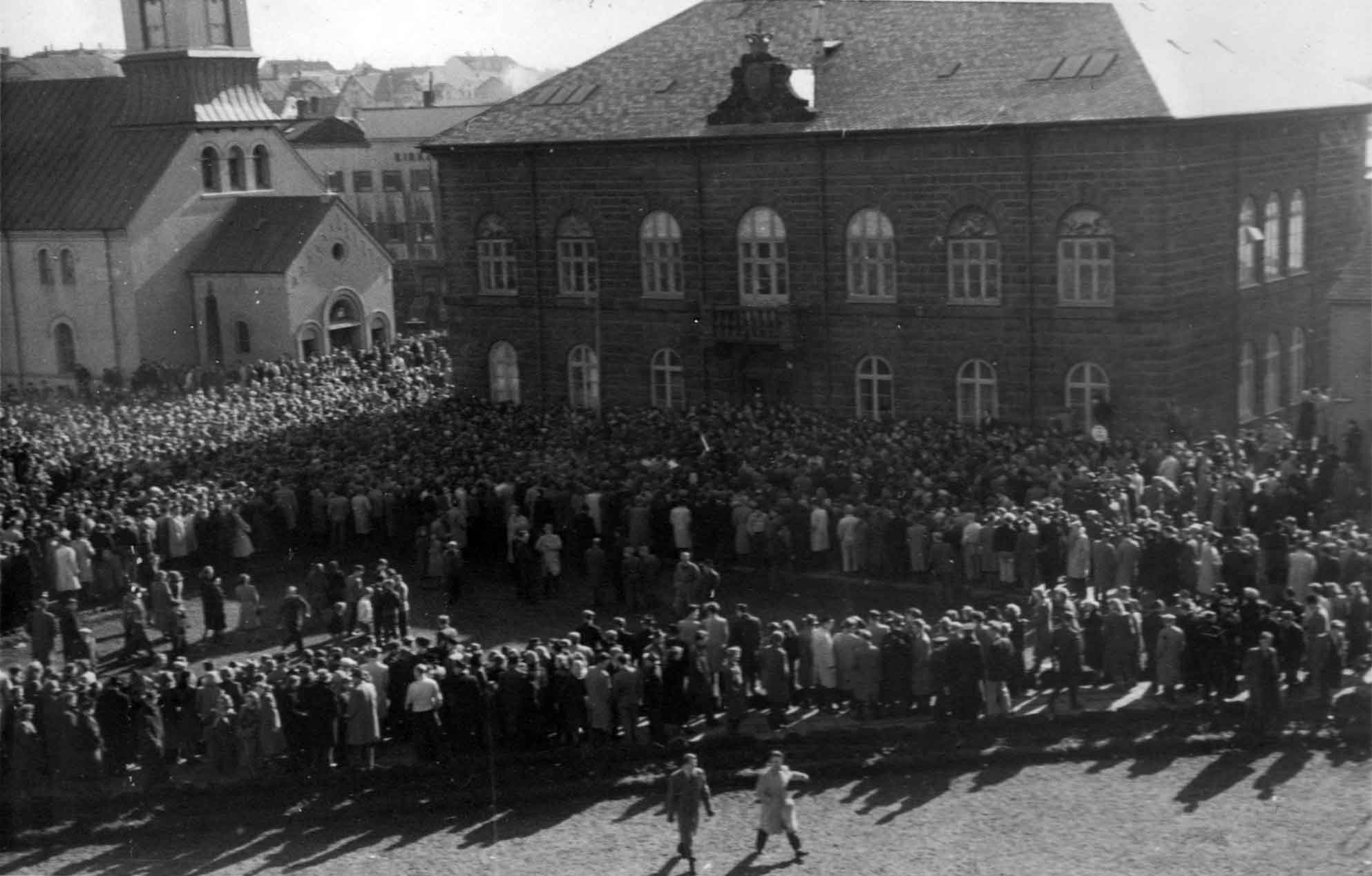 From the day of the Anti-NATO protests in Reykjavík. Overview over Austurvöllur and the House of the Althing, March 30th 1949.